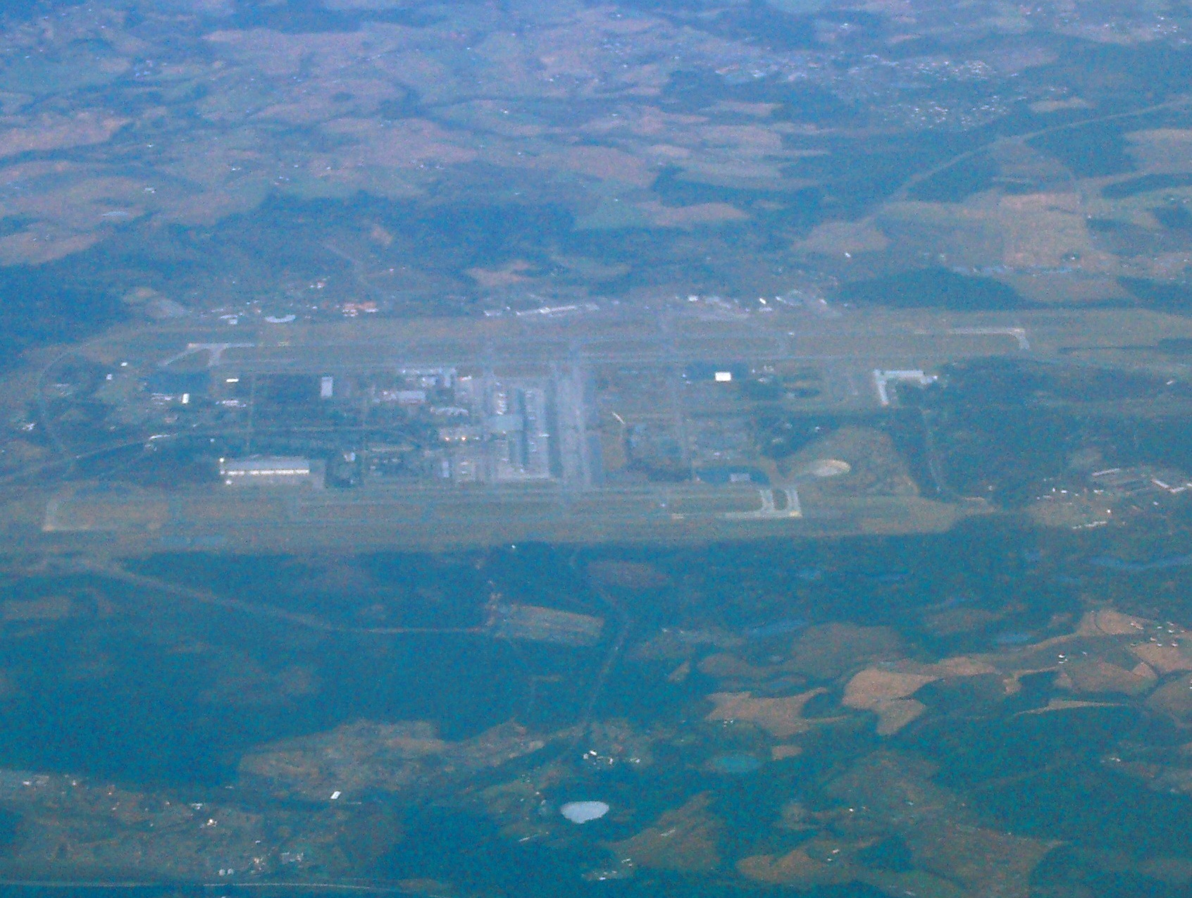 Oslo Airport, Gardermoen seen from the east